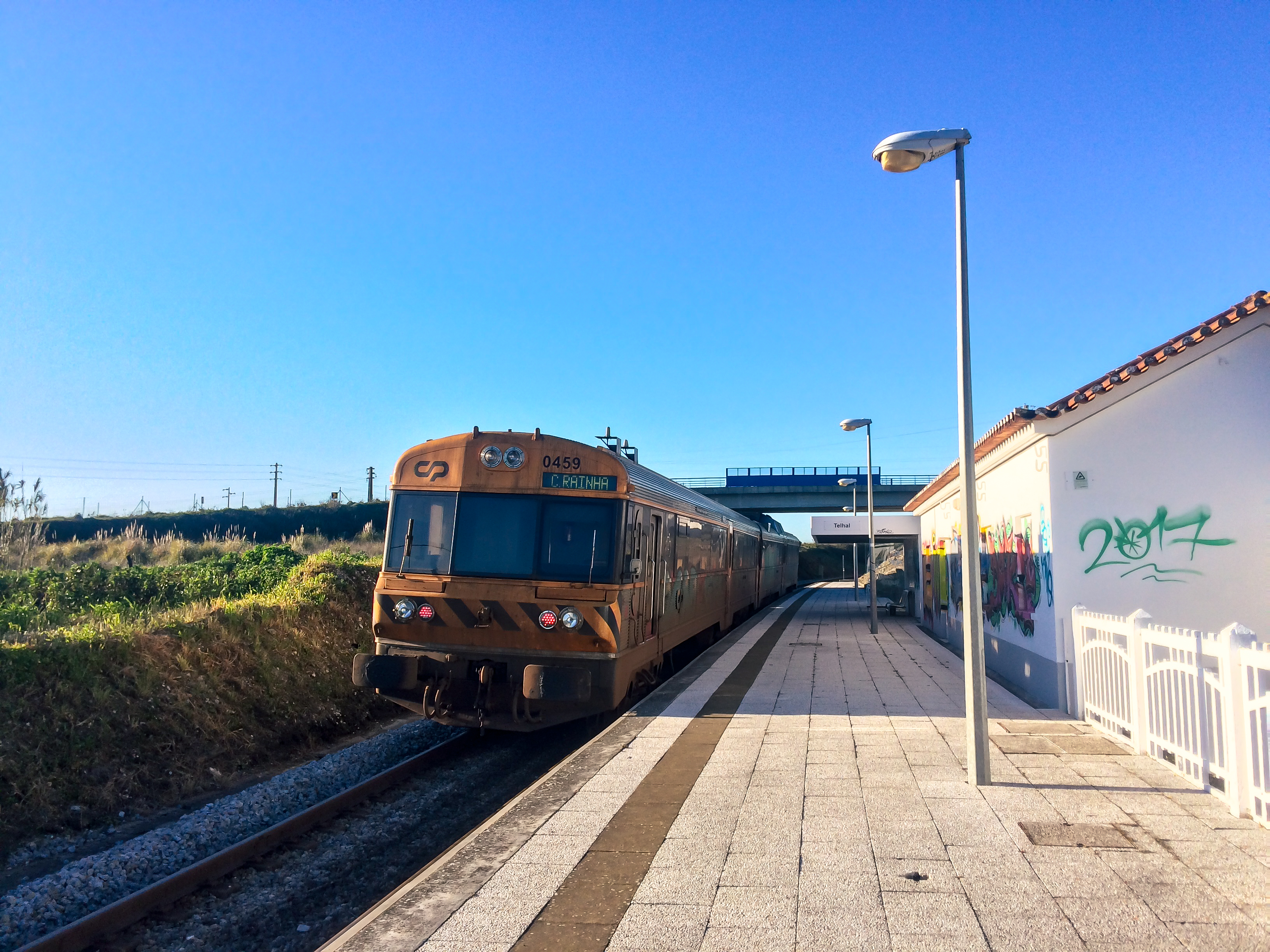 EMU 0459 (train type 450) as regional train 6415 at Telhal halt in direction of Caldas da Rainha